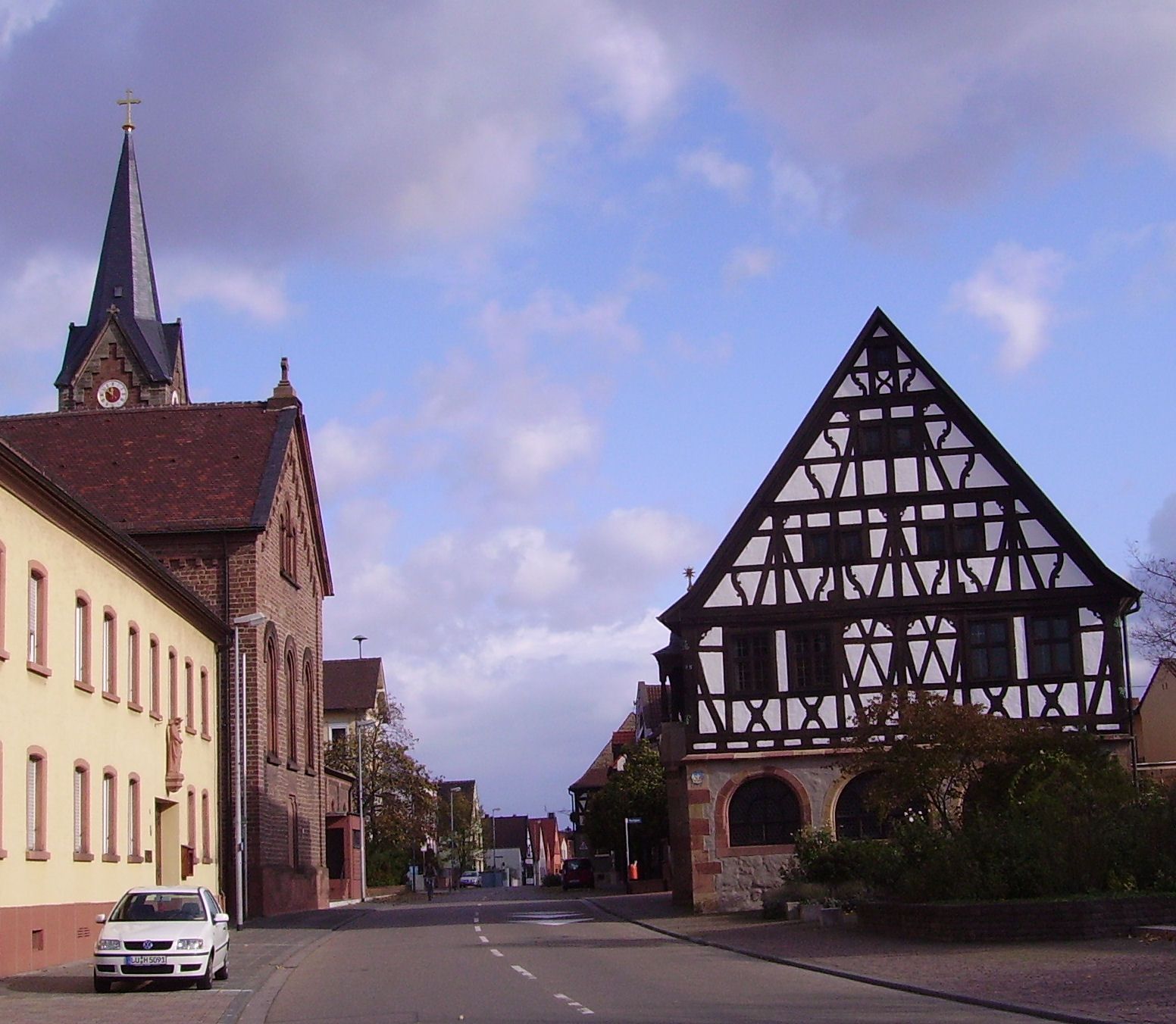 view of Schifferstadt, Germany